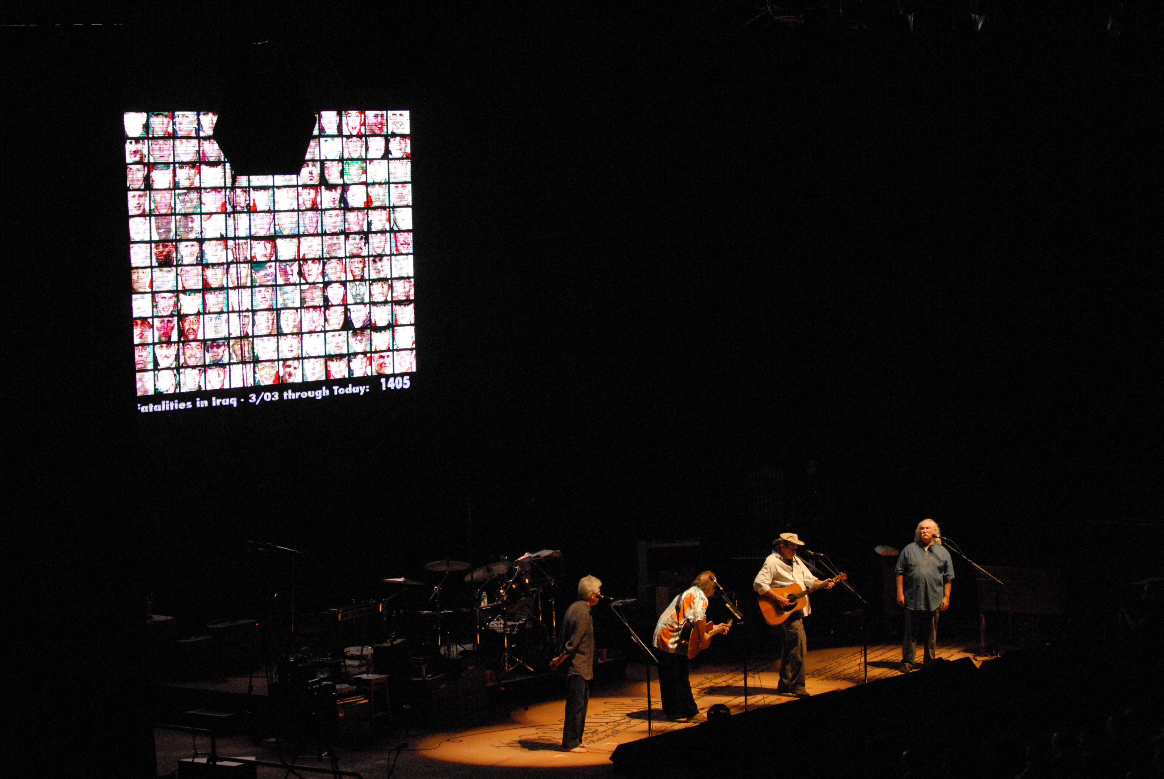 I Adrian Buss took this photo at the 2006 CSNY concert in Ottawa Canada July 06. For more concert photos please go to